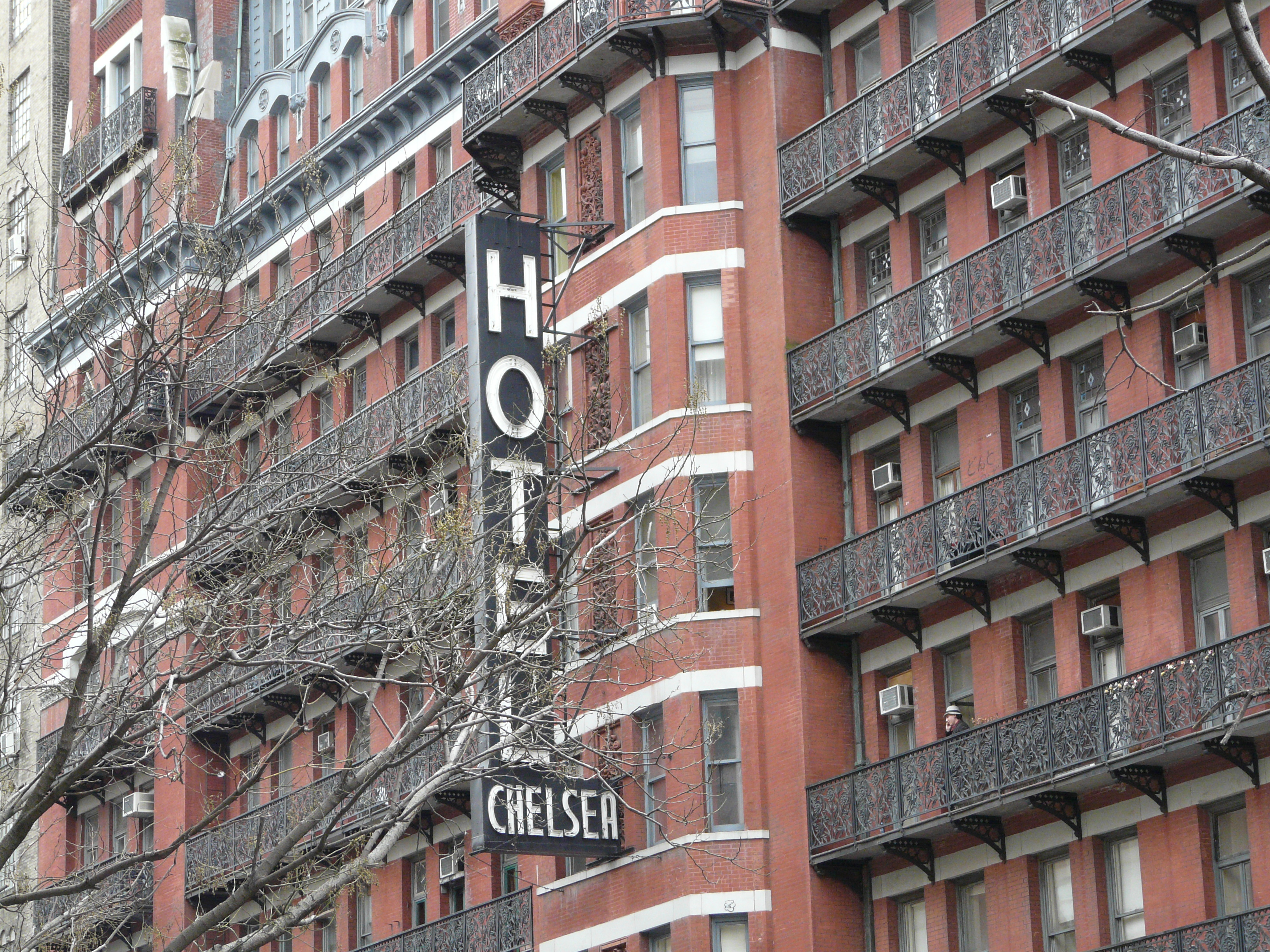 New York